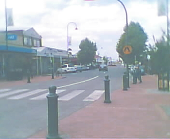 Main Street, Pakenham.